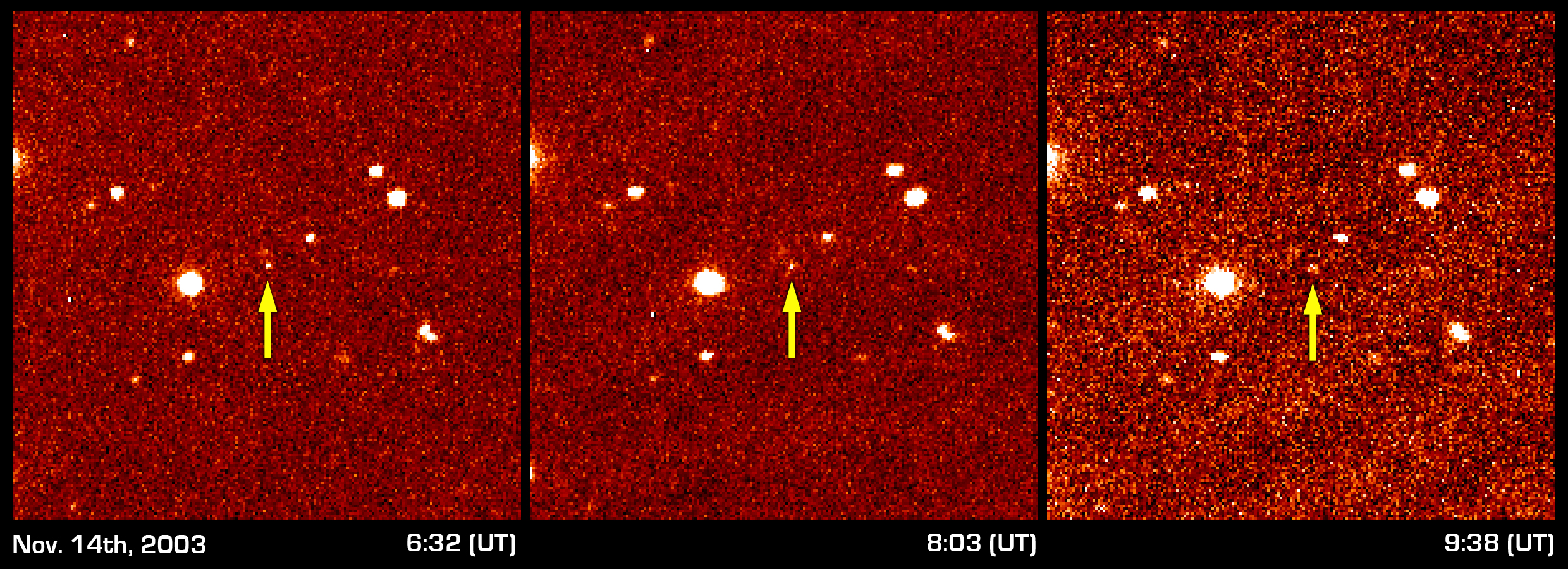 These three panels show the first detection of the faint distant object dubbed "Sedna." Imaged on November 14th from 6:32 to 9:38 Universal Time, Sedna was identified by the slight shift in position noted in these three pictures taken at different times. Subsequent observations at longer time intervals provided the information necessary to deduce the nature of Sedna's 10,500 year orbit around the Sun. The field of view of each frame is 3.4 arcminutes square, and each pixel is 1.0 arcsecond.